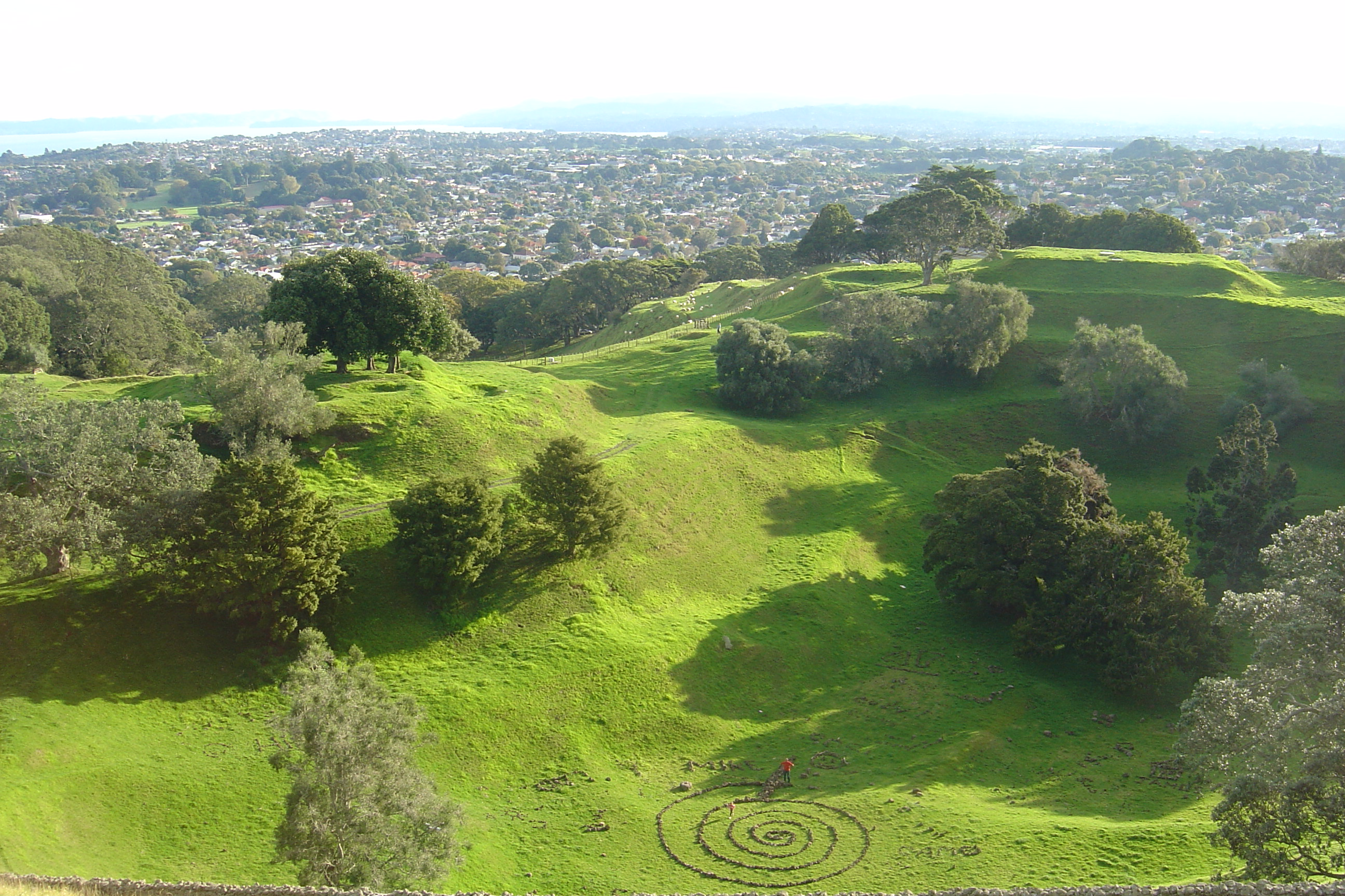 Looking westwards from the Summit of One Tree Hill to one of its two craters